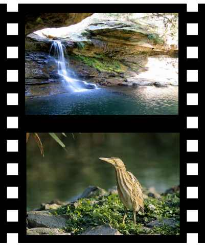 This is a graphical representation of a part of a movie containing a "hard cut".